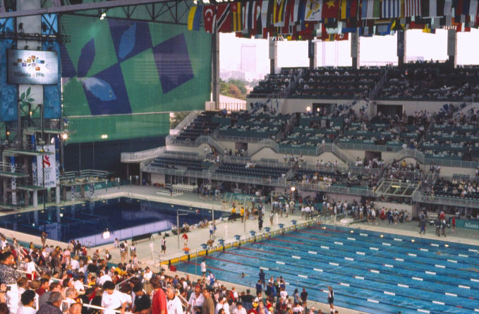 Piscine des JO d'Atlanta 1996 PHIL ID# 1490 (piscine) Title: 1996 Atlanta Olympics--swimming venue. Content Provider(s): CDC/Dr. Edwin P. Ewing, Jr. Provider E-Mail: --- Creation Date: (1996) Description: Crowd scene. Source Library: PHIL Photo Credit